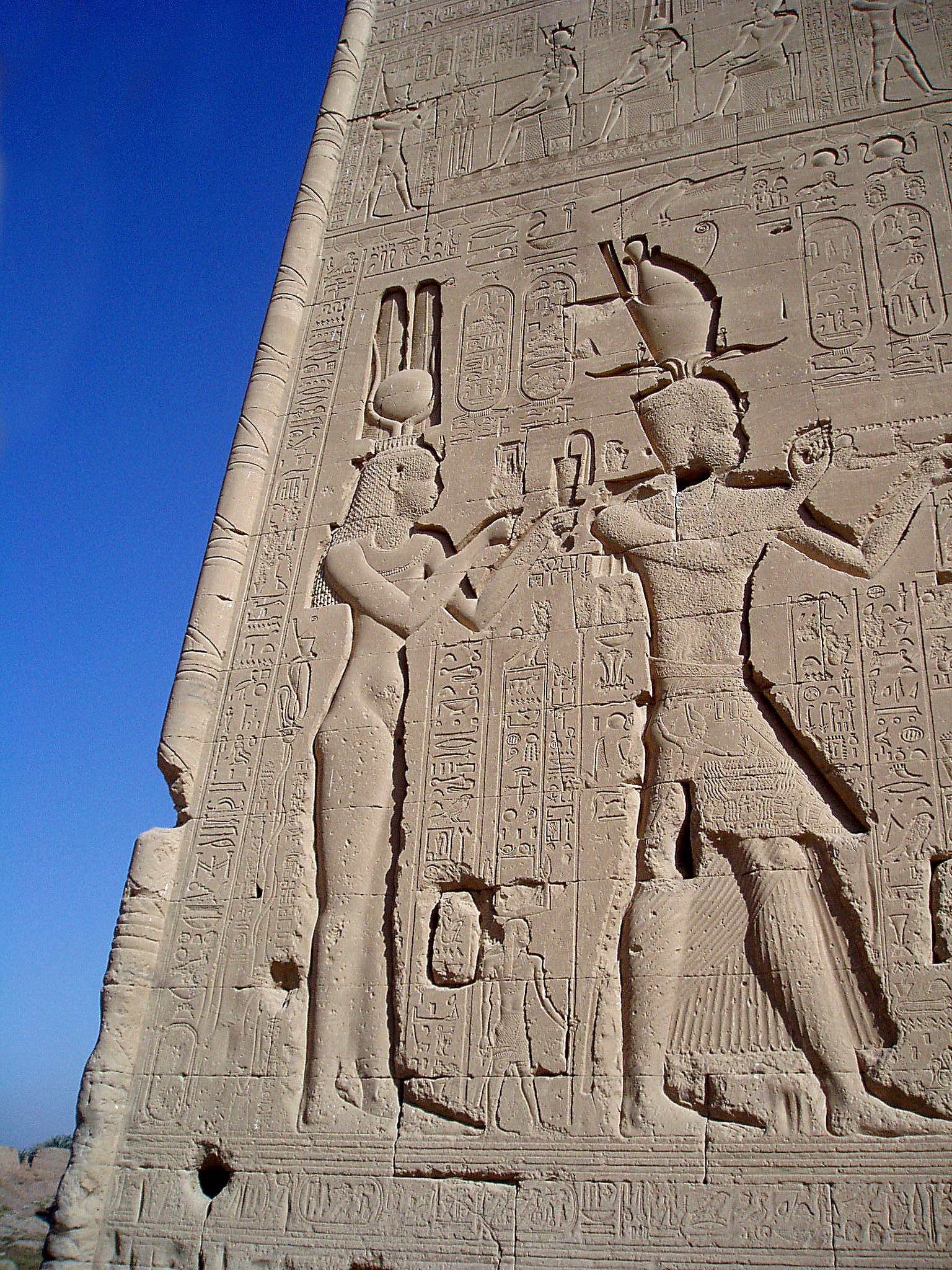 Cleopatra and Cesarion. Backside of the Temple of Dendera.